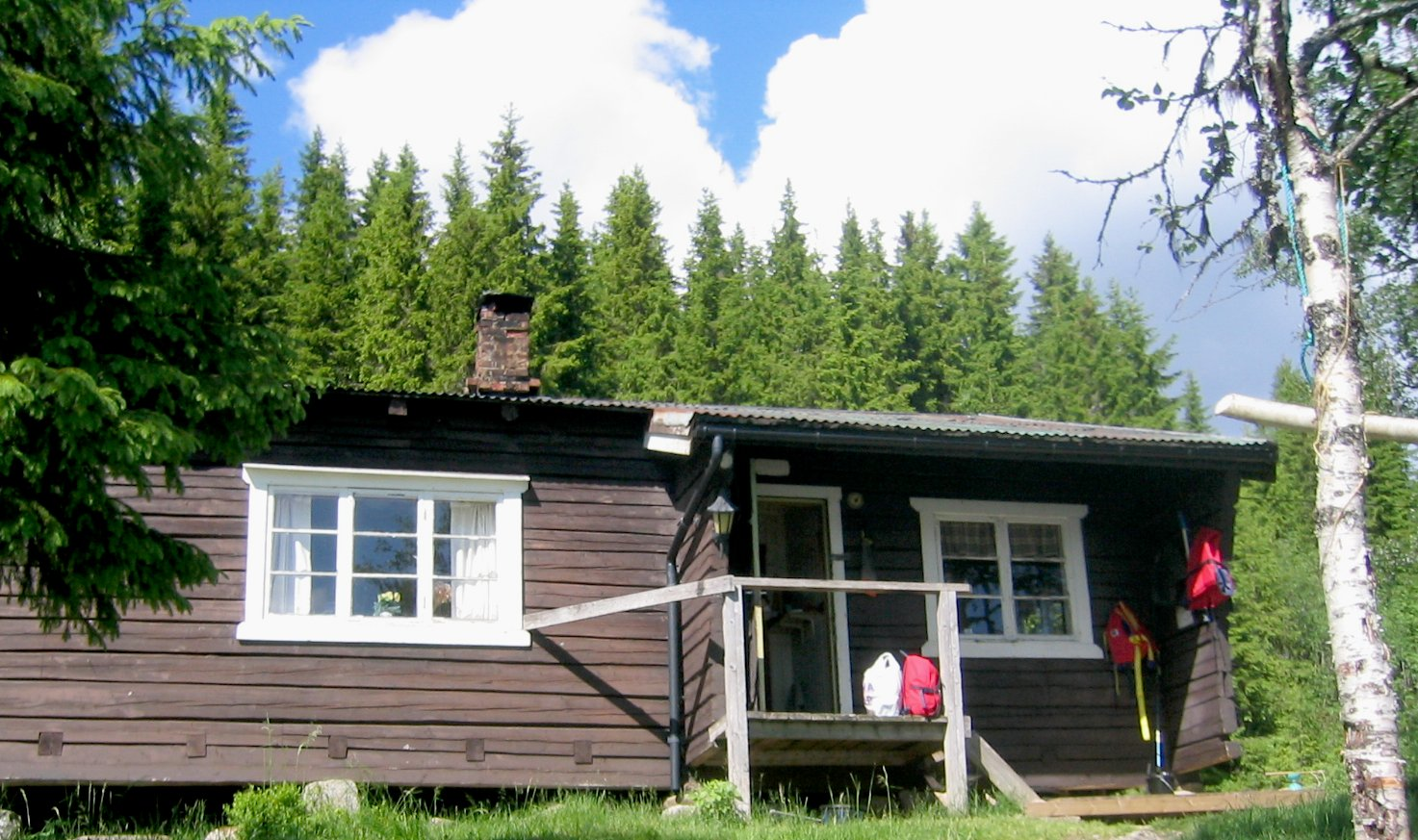 The cottage called Nystua in Namdalseid, Norway owned by Statskog. Photographer: Einar Faanes Camera: Canon Ixus v3 Afterwork: Cutting and regulation of light and colour in the GIMP